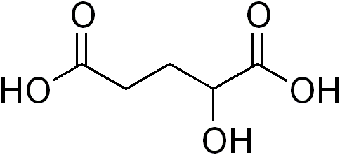 chemical structure of alpha-hydroxyglutaric acid (alpha-hydroxyglutarate)